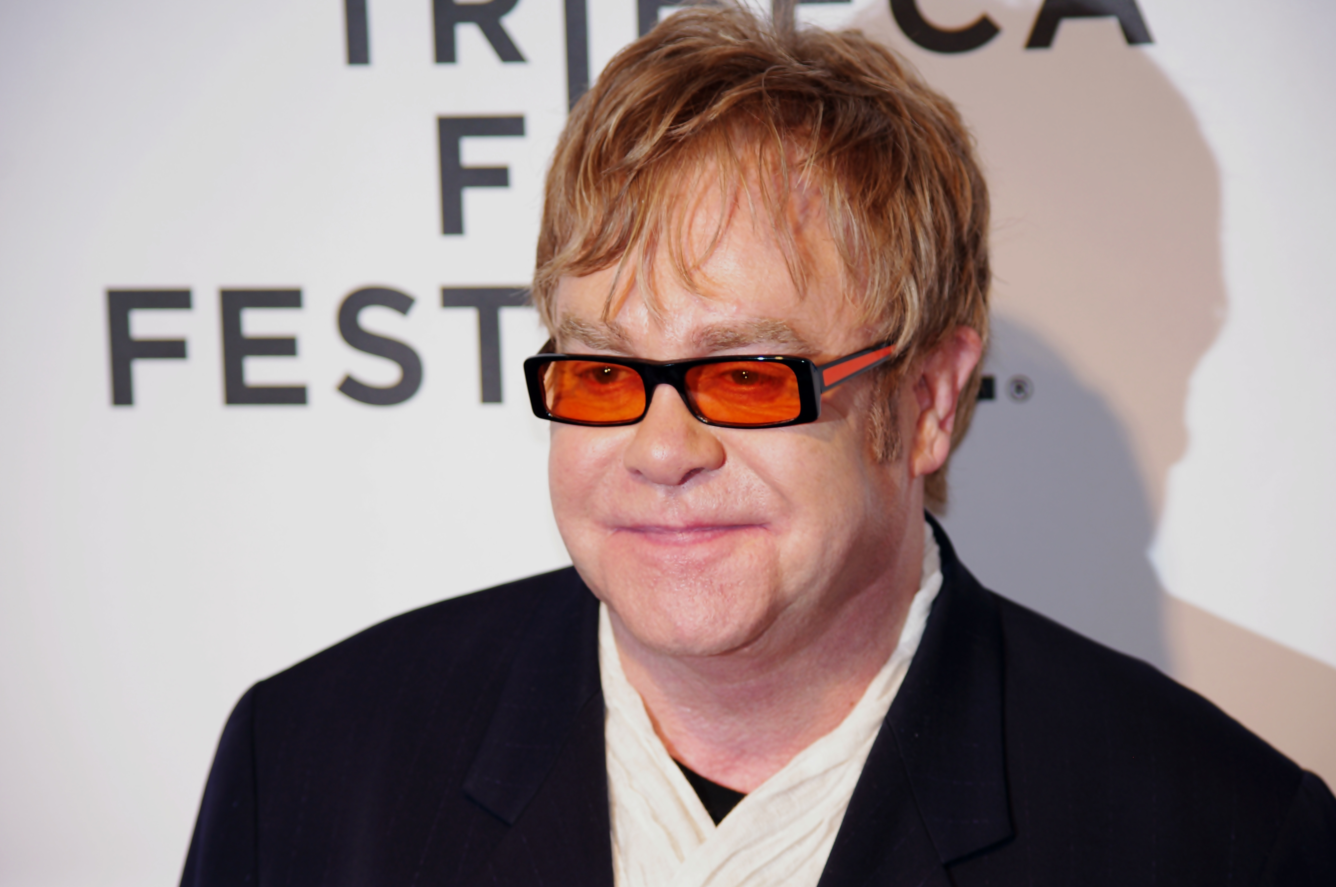 Elton John attending the premiere of The Union at the Tribeca Film Festival.